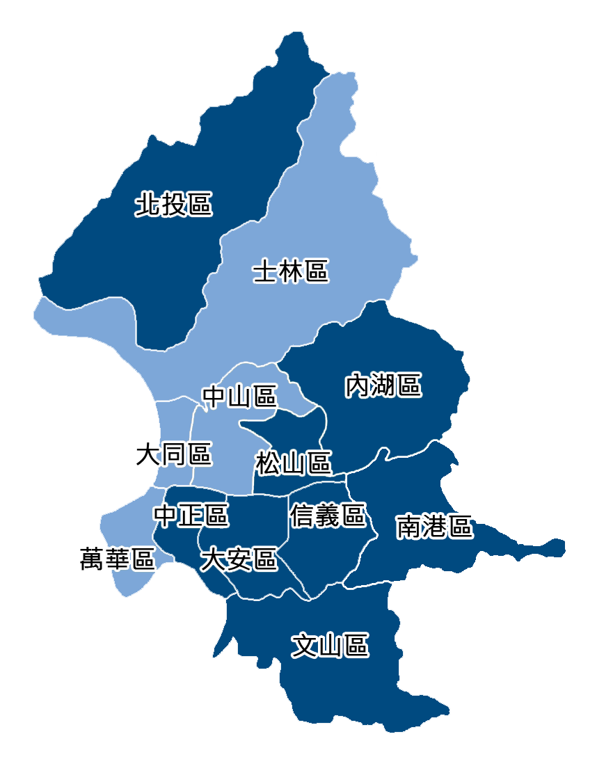 Graphical Depiction of the Election Results of the 2002 Taipei Municipality Mayoral Election.